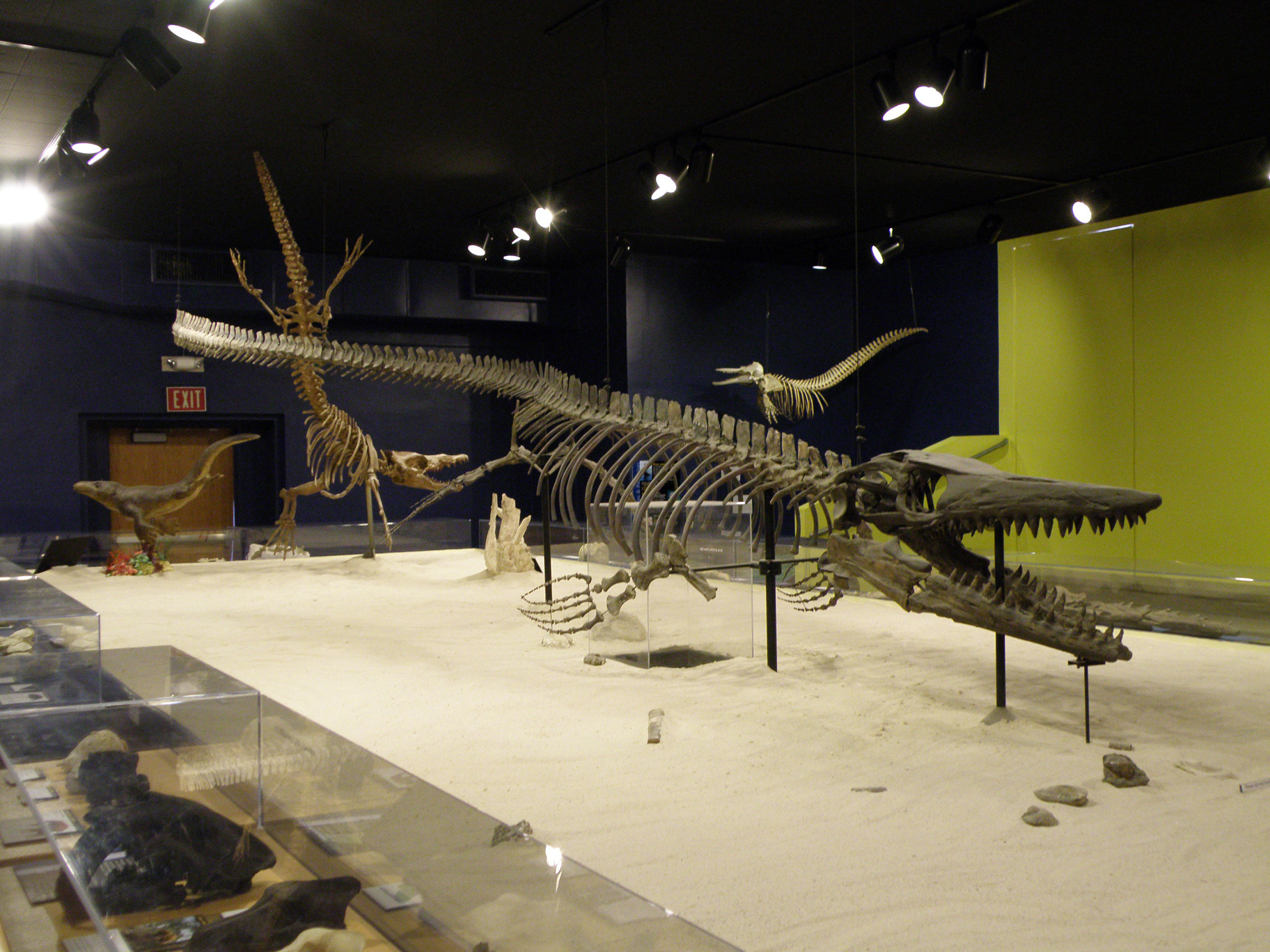 Fossil skeletons of ancient sea life at Georgia Southern University Science Museum.